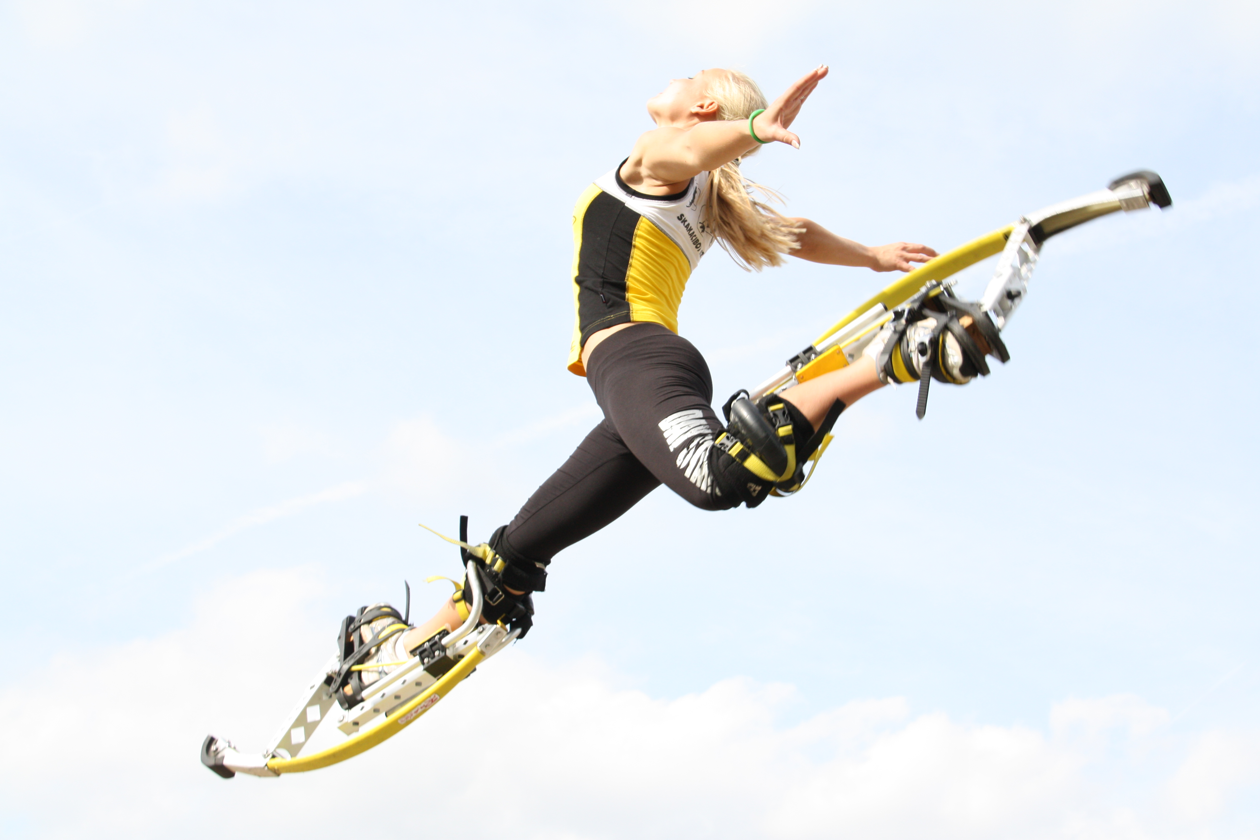 Powerbocking girl